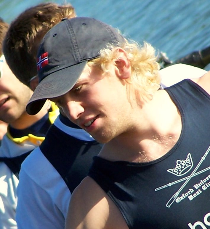 Andy Triggs Hodge